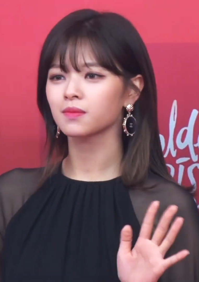 Yoo Jeong-yeon at Golden Disk Awards on January 5, 2019.